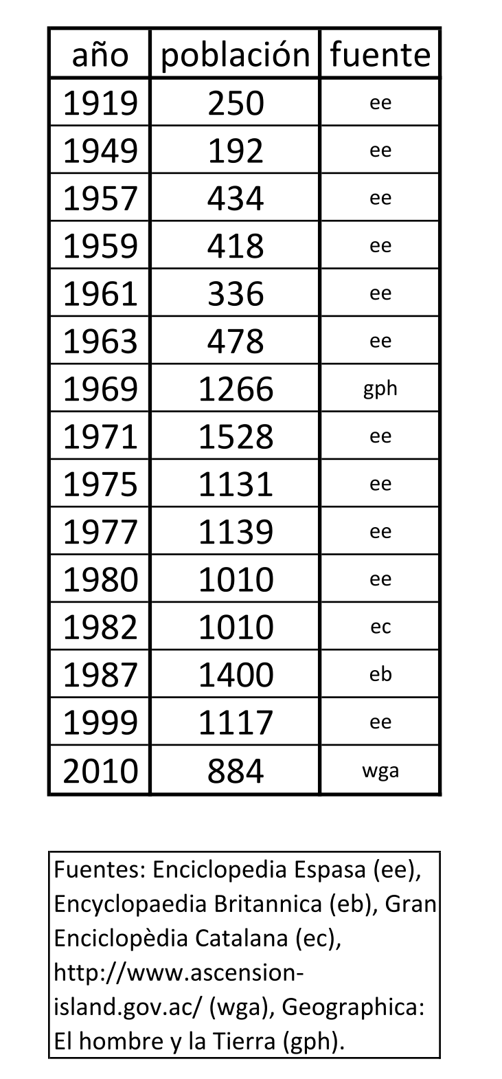 Population of Ascension Island in Spanish, converted file from pdf to png to crop white, empty ,margins